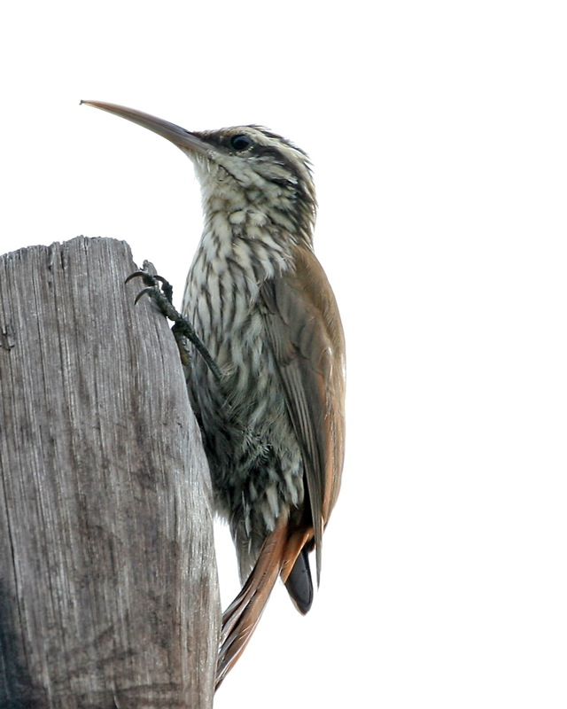 Narrow-billed Woodcreeper (Lepidocolaptes angustirostris) at Entre Rios, Argentina.